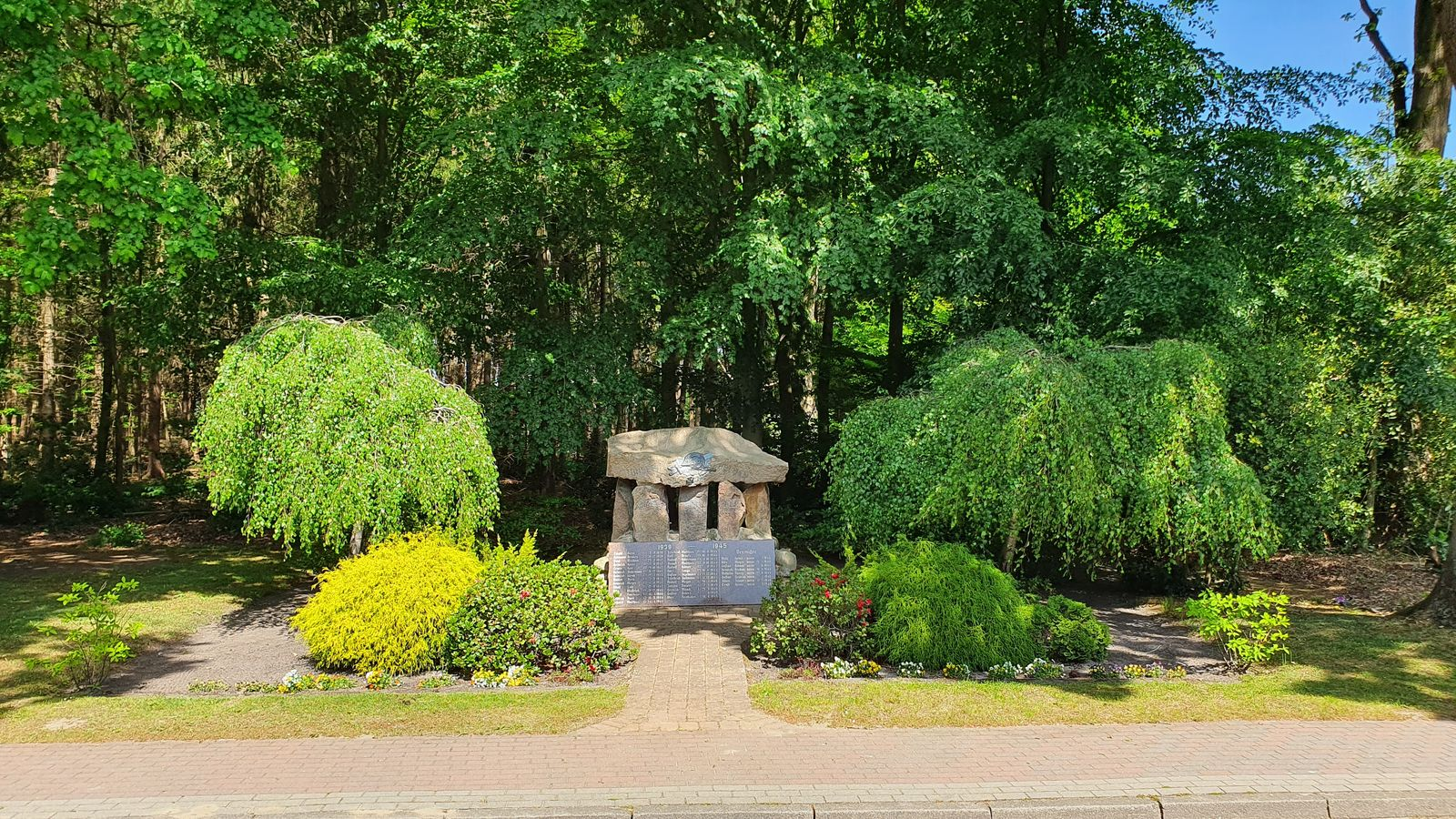 Warrior memorial Kampen